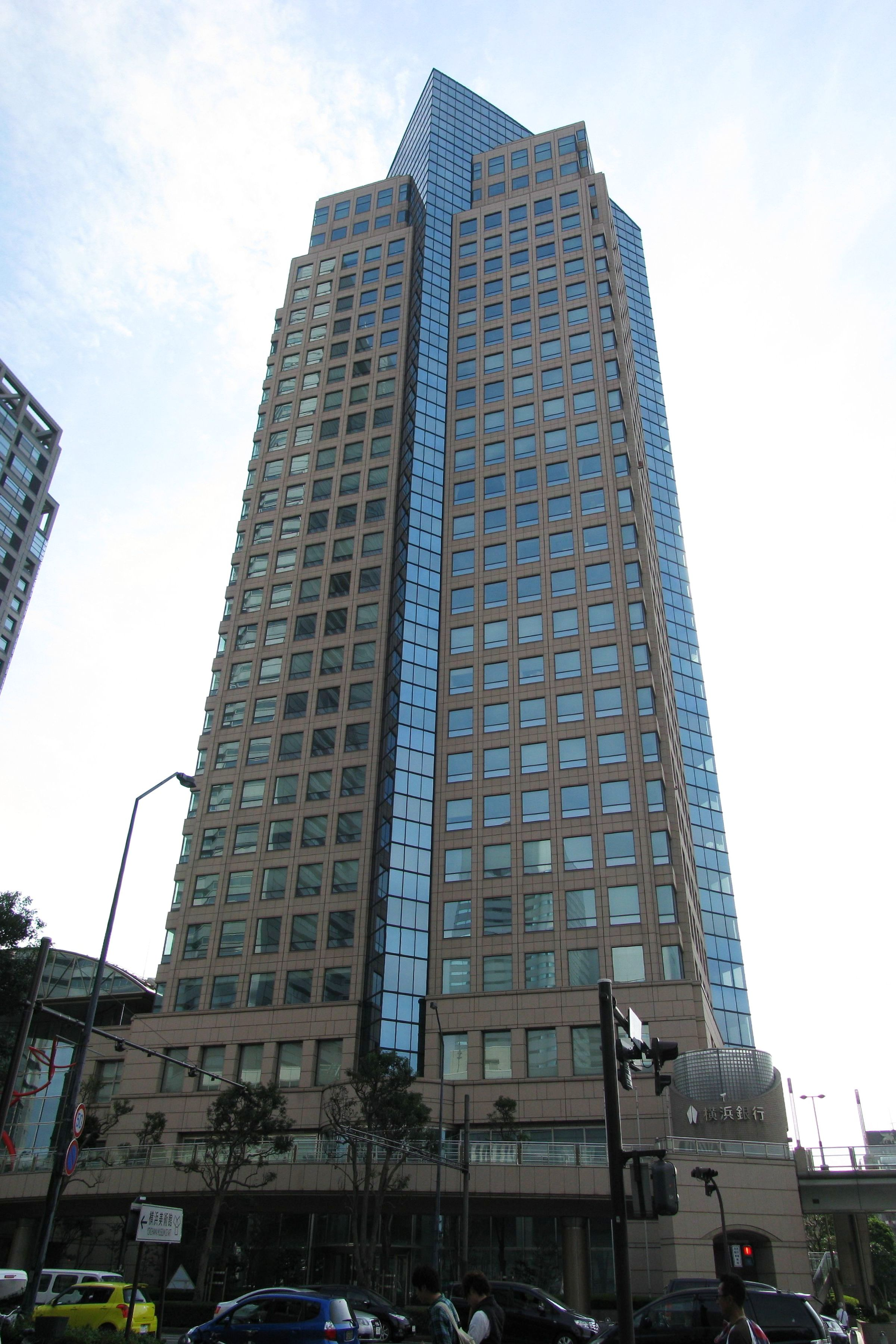 The Bank of Yokohama Headquarters. This location is Minato Mirai in Nishi-ku, Yokohama, Kanagawa Prefecture, Japan.